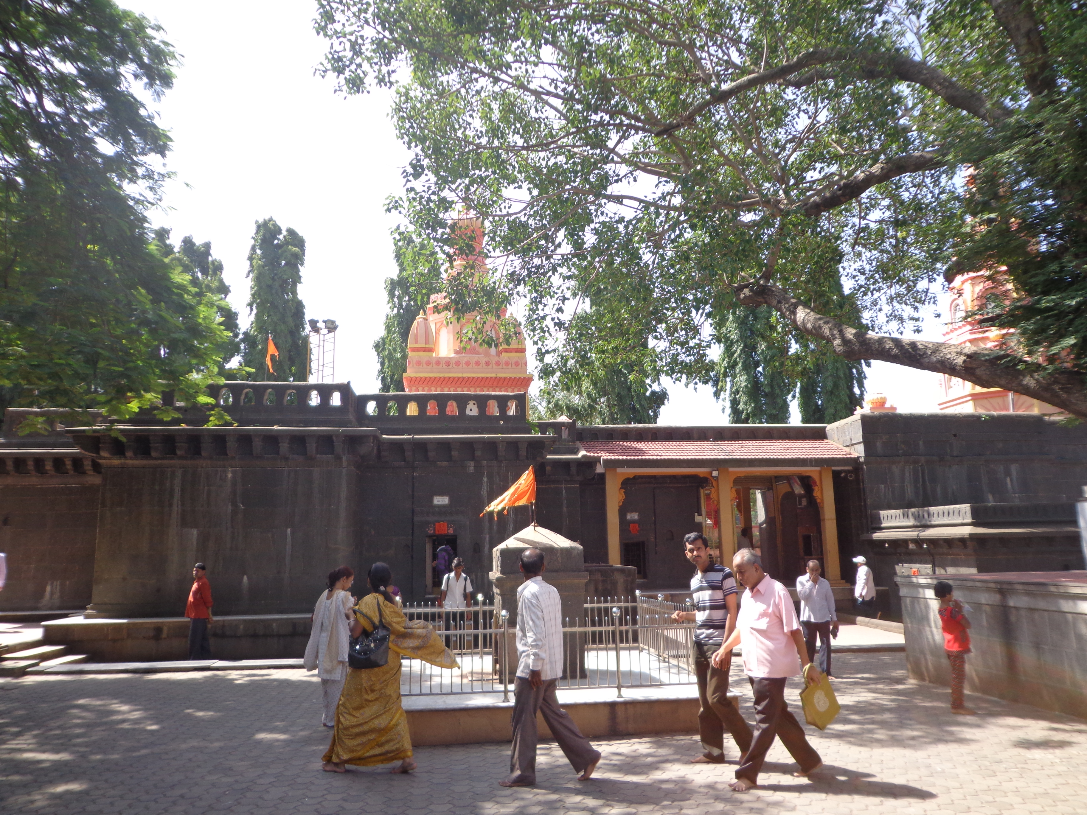 Mourya gosavi, chinchwad (2)